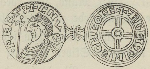 Coin of Cnut the Great minted in England.